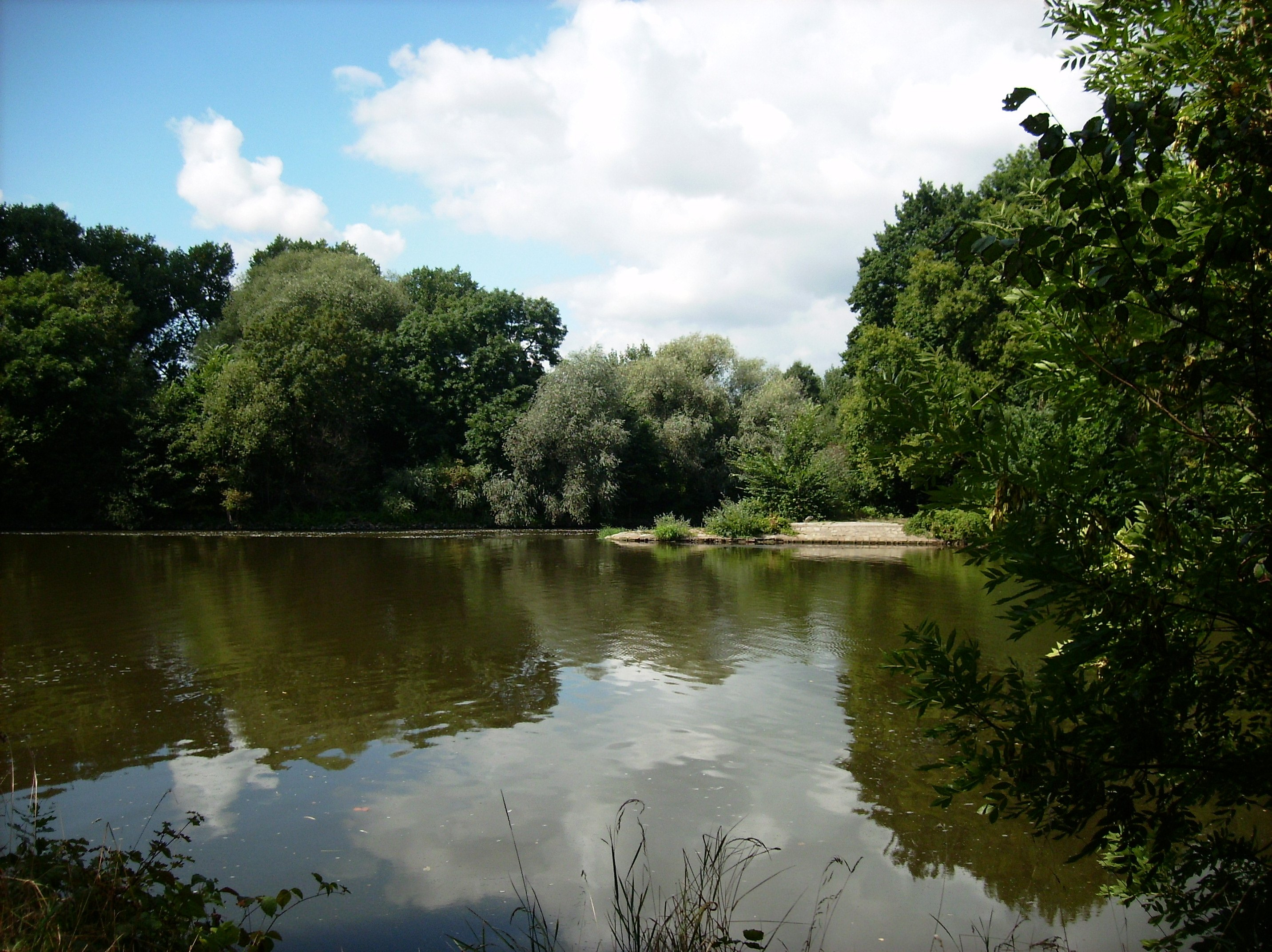 The Saale river at the southern tip of the Rabeninsel (Raven's Island) in Halle (Saale), Saxony-Anhalt